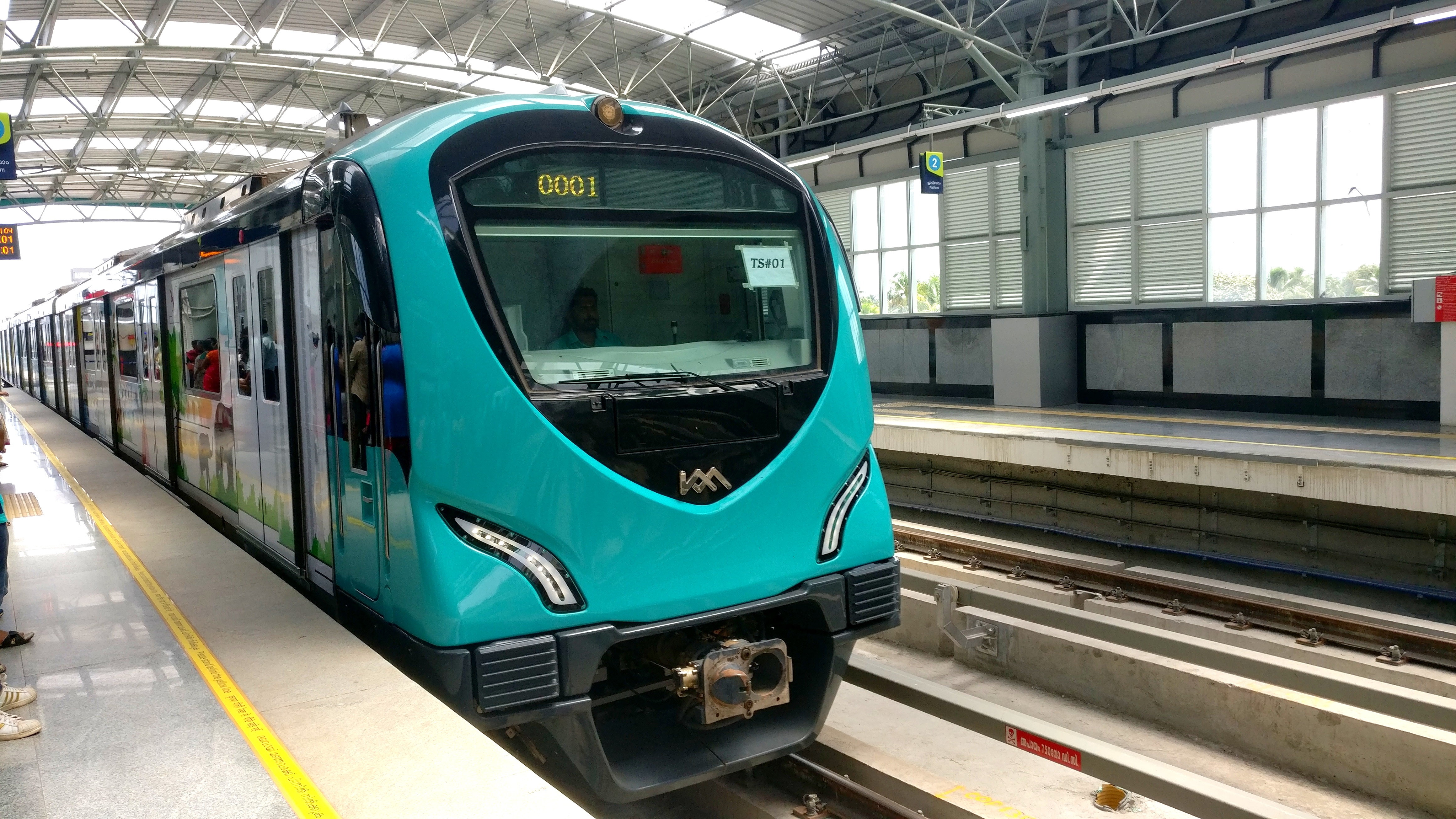 Kochi Metro is a metro system serving the city of Kochi in Kerala, India. It was opened to the public within four years of starting the construction.